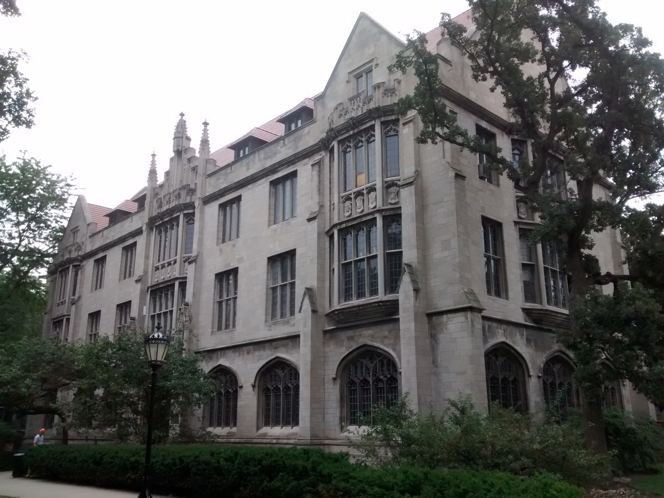 Swift Hall at the University of Chicago.